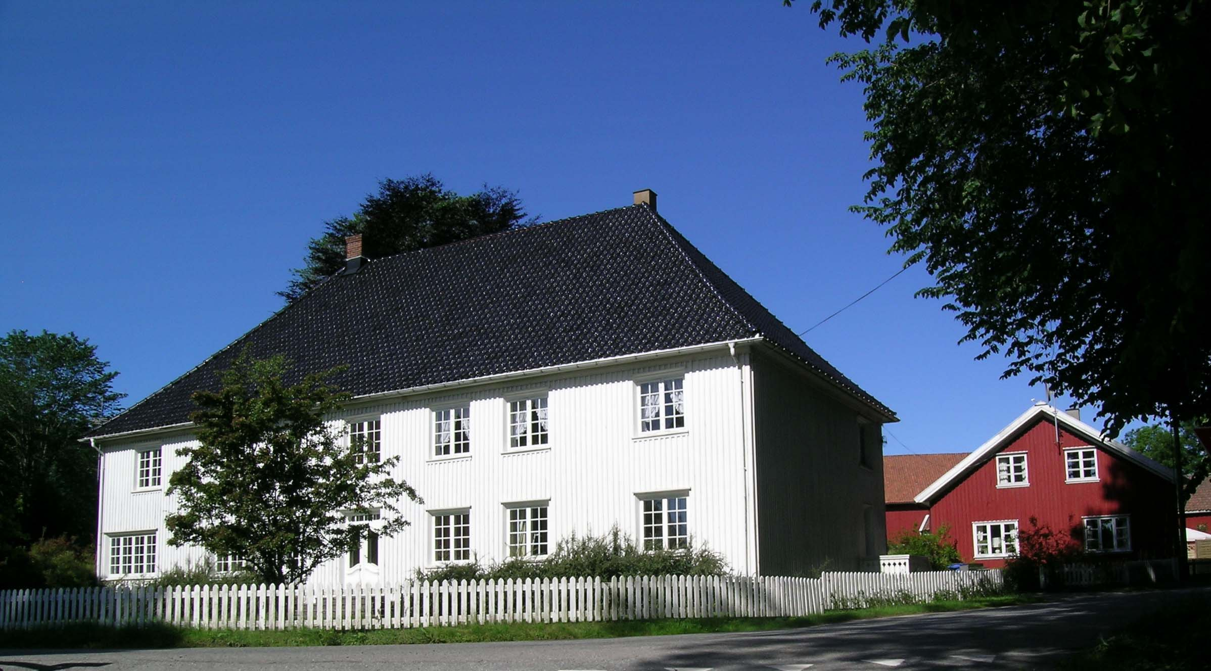 Tanum prestegård (rectory), Larvik, Norway.